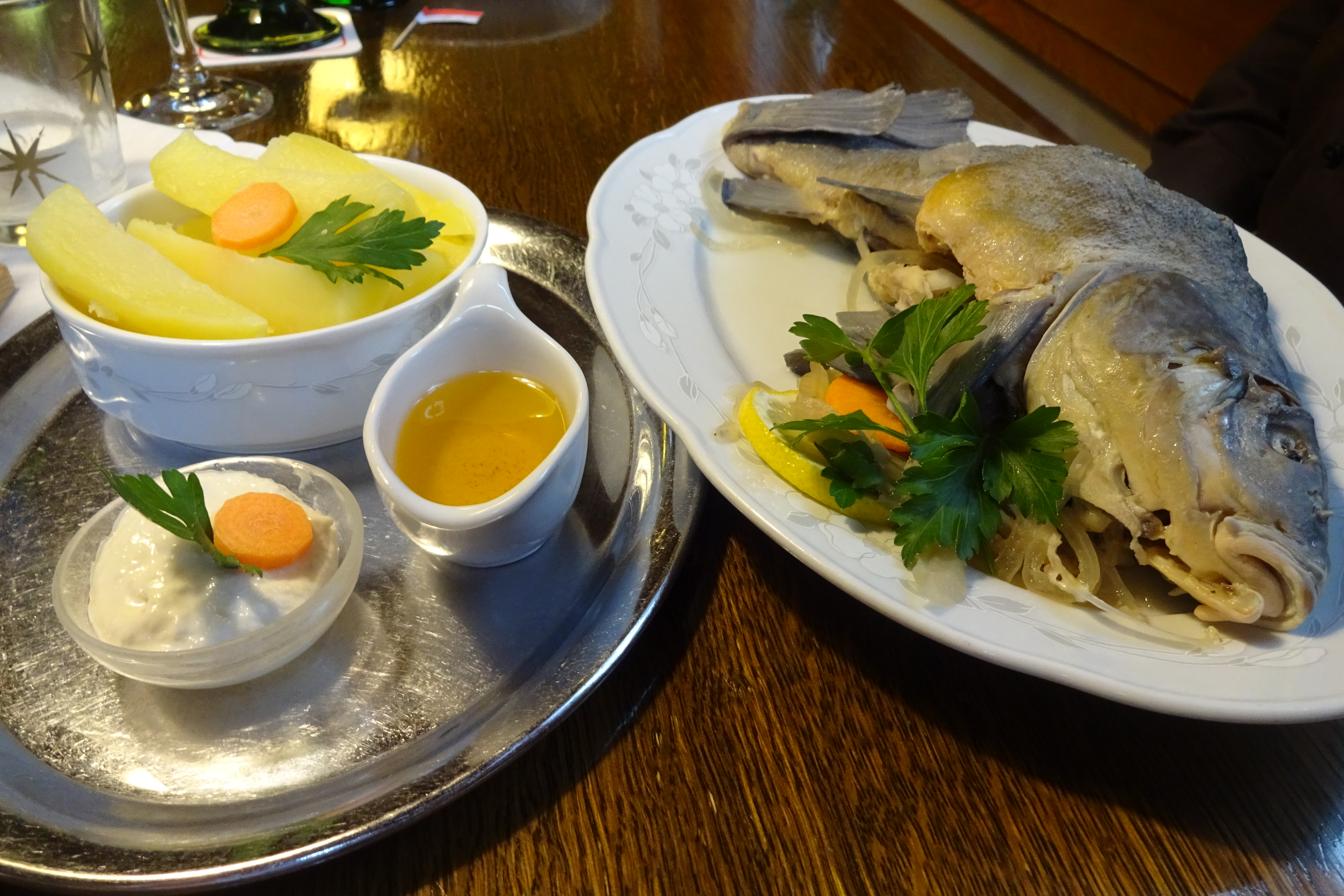 Poached Tench with salt potatoes, liquid butter and horseradish. Photographed in the Fischküche forester in Möhrendorf.